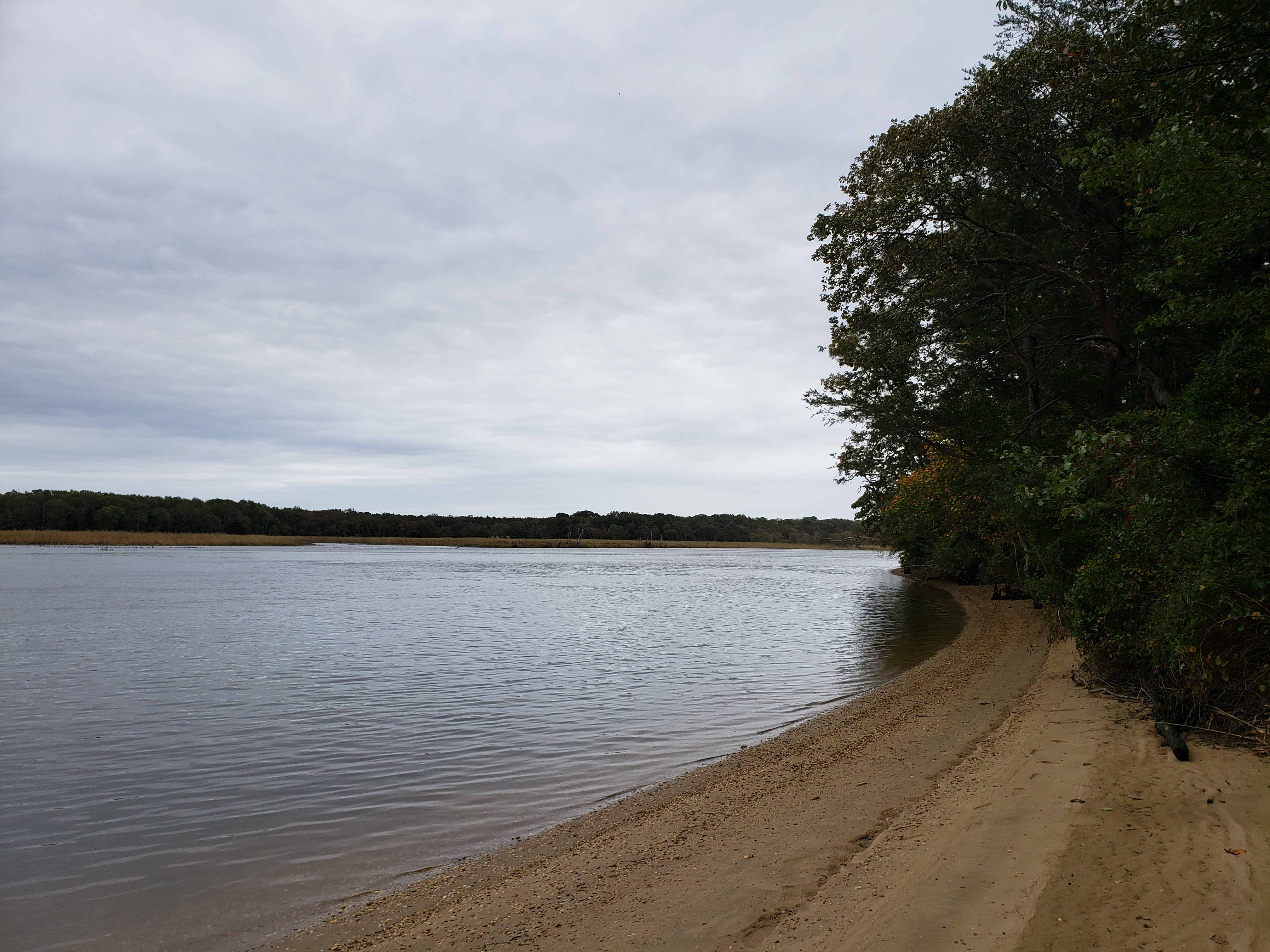 The Maurice River from the Maurice River Bluffs Preserve. Taken October 6th 2019.